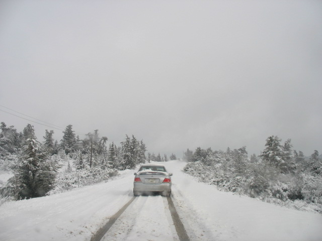 Al Bayda (Libya) suburb snow.